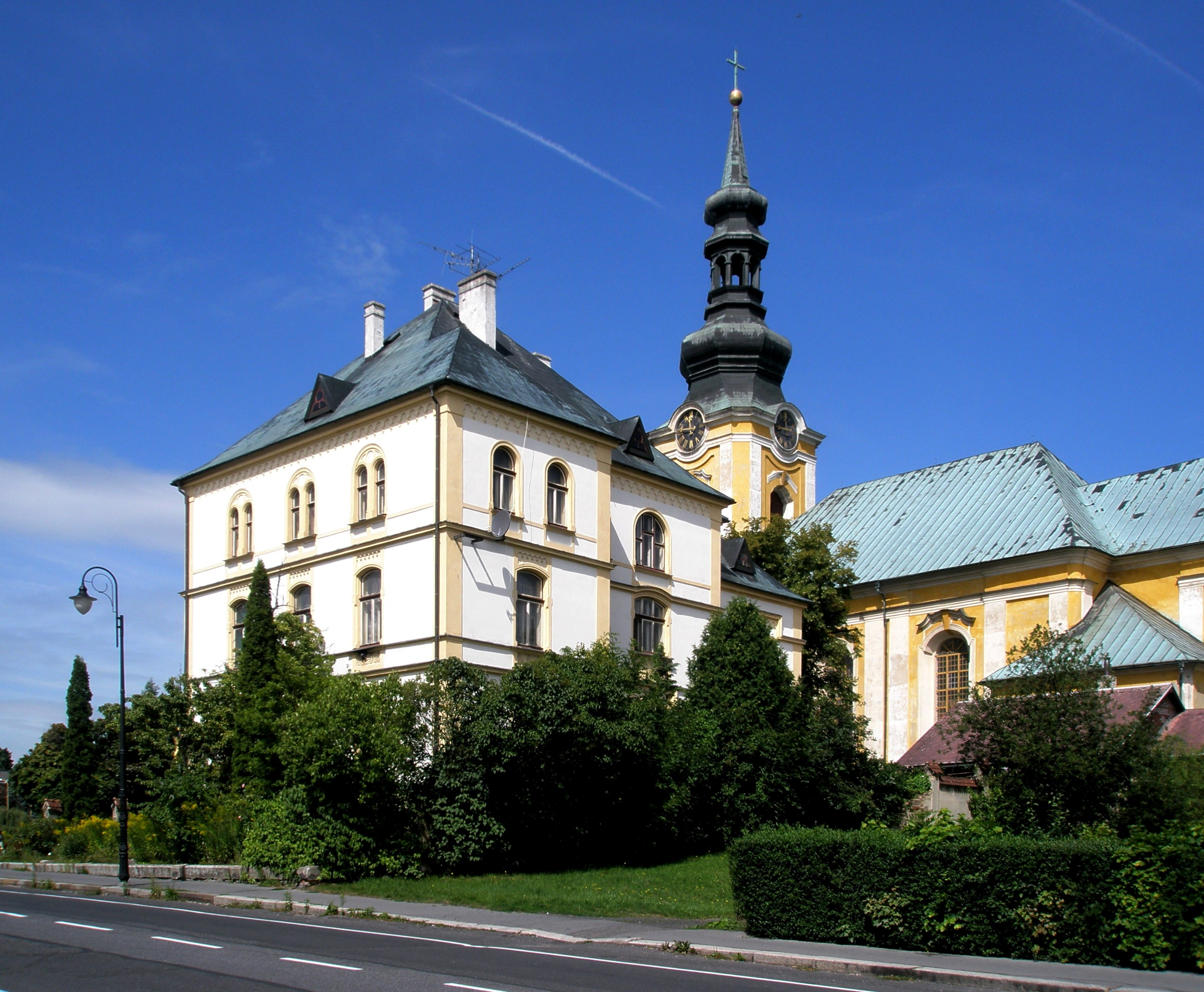 Dean's house and catholic church in Varnsdorf, Czech Republic